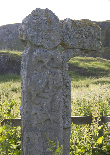 Celtic Cross, Canna